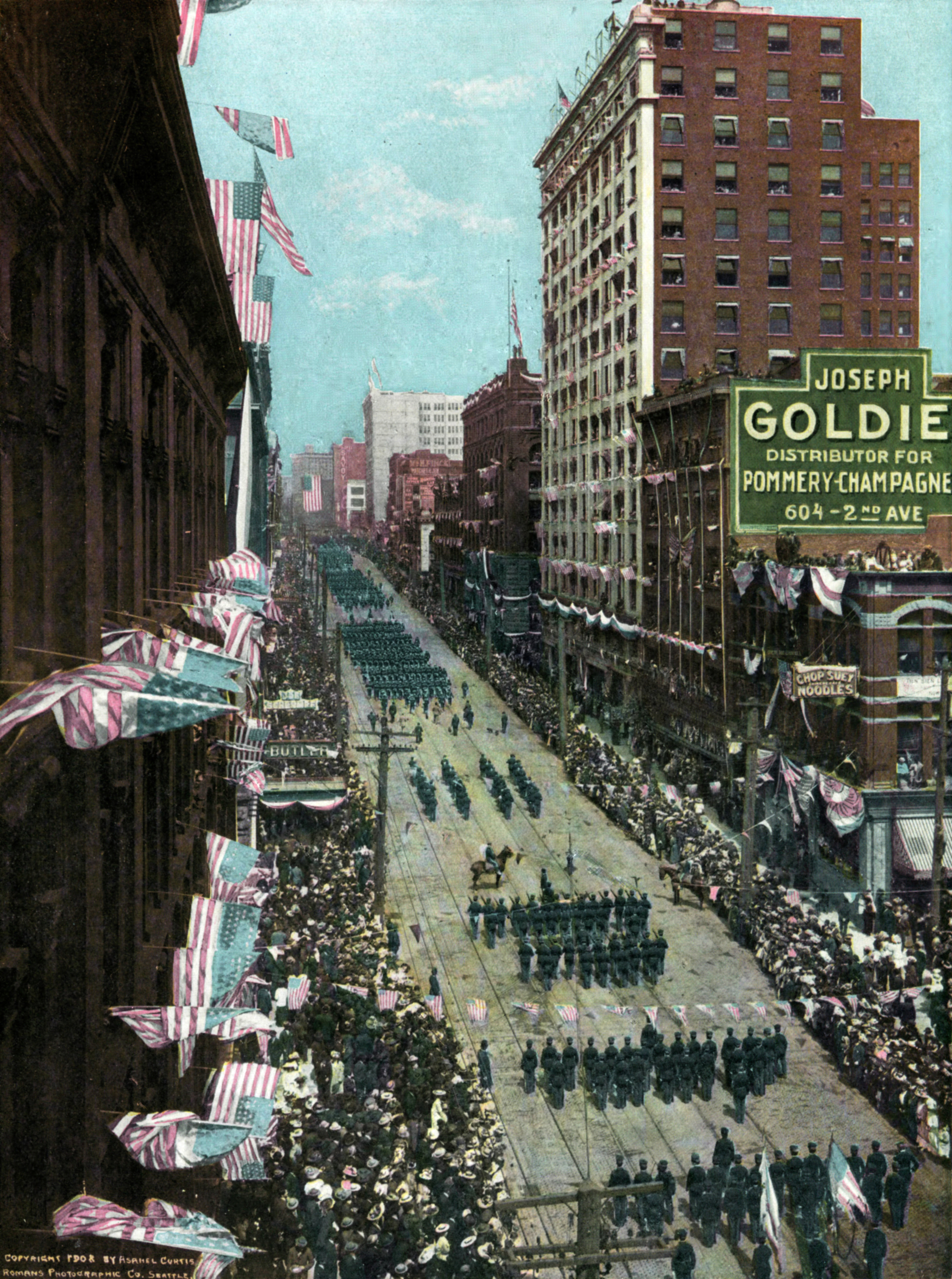 Tinted photo. Original caption: "ON SECOND AVENUE. A section of the parade which greeted the Atlantic Squadron at Seattle". From the materials for the Alaska-Yukon-Pacific Exposition of 1909, held in Seattle. The building in extreme perspective at near left is the Seattle Hotel (a.k.a. Hotel Seattle), demolished in the 1960s. The next building on the left is the Butler Hotel (its sign can be seen), the lower two stories of which survive. The first building on the right is gone, replaced in 1929 by the Hartford Building. The Corona Building and the Alaska Building (second and third from right) are still standing. The district has been successively enlarged, and hence has multiple NRHP IDs: 70000086, 78000341, and 88000739 This is a retouched picture, which means that it has been digitally altered from its original version. Modifications: colors modified, also cropped. Modifications made by Dcoetzee. This file has been extracted from another file: Argus - A.Y.P. ed. - Page 48b.jpg